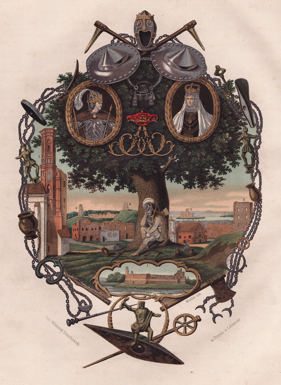 Symbolic illustration of Lithuanian history from ЧЕРТЫ ИЗ ИСТОРИИ И ЖИЗНИ ЛИТОВСКОГО НАРОДА (Traits from the History and Life of the Lithuanian People) by Adam Honory Kirkor published in 1854. It reflects romantic nationalism of the time. It depicts portrait and monogram of Grand Duke Vytautas the Great, portrait of Queen Barbara Radziwiłł, ruins of various Lithuanian castles (Trakai, Medininkai, Vilnius, Lida, Kreva), Bernadine Church and Cathedral of the Theotokos in Vilnius, two figurines of pagan gods (Perkūnas and Kovas), various archaeological finds.